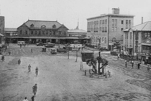 Shimonoseki Station circa 1930